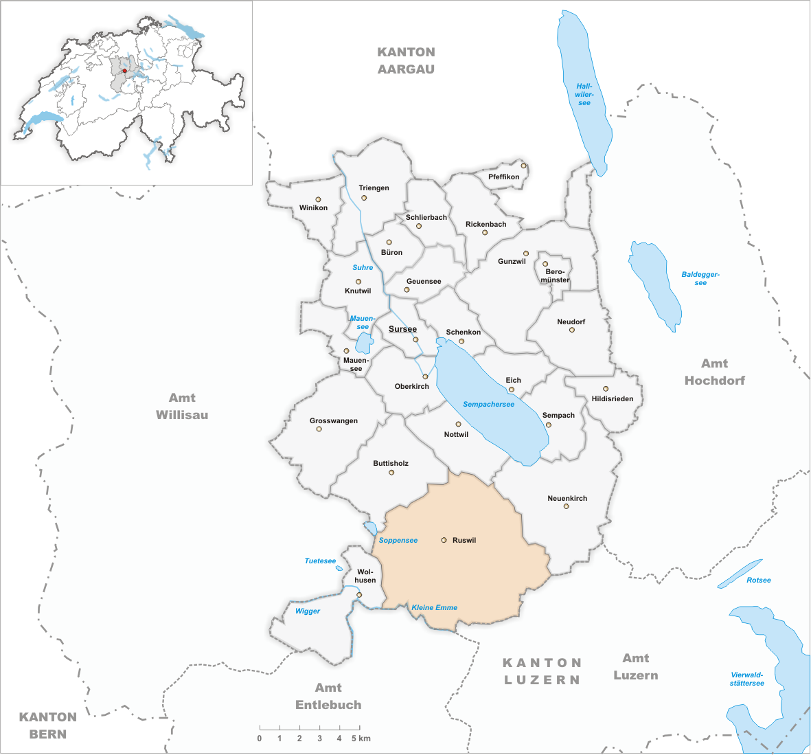 Municipality Ruswil